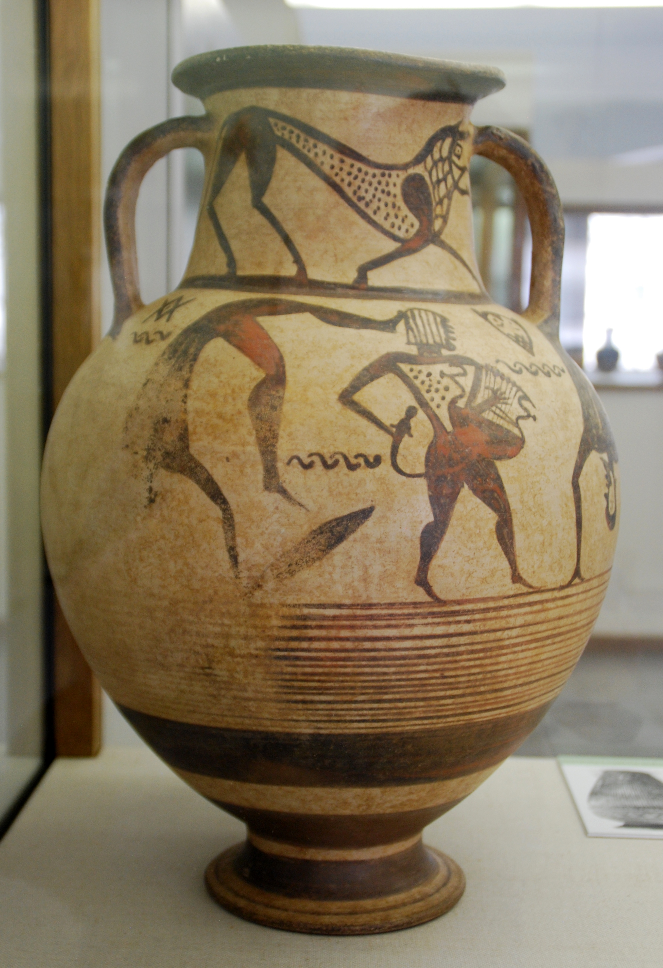 Etruscan orientalizing neck-amphora, produced in Ceverteri (Caere); the main image has a reference to the Argonauts: the Argonaut and as a warrior dressed singer Orpheus is playing for a weapon dance of younger Argonauts, the gargoyle to the right of his head indicates a sacred area, the neck image depicts a lion, in false interpreteation of the eastern Greek paintersthe so-called Kithara painter (Pittore dell'Eptacordo) shows the upper and lower jaw and the tongue again, but the eye is not located in the head, but over the tongue; about 470/60 BC; loan of Takuhito Fujita to the Antikensammlung Würzburg, inventory number ZA 66.